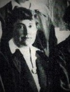 Vera Ermolaeva from a picture with "Professors at the People's Art School in Vitebsk", July 26, 1919.